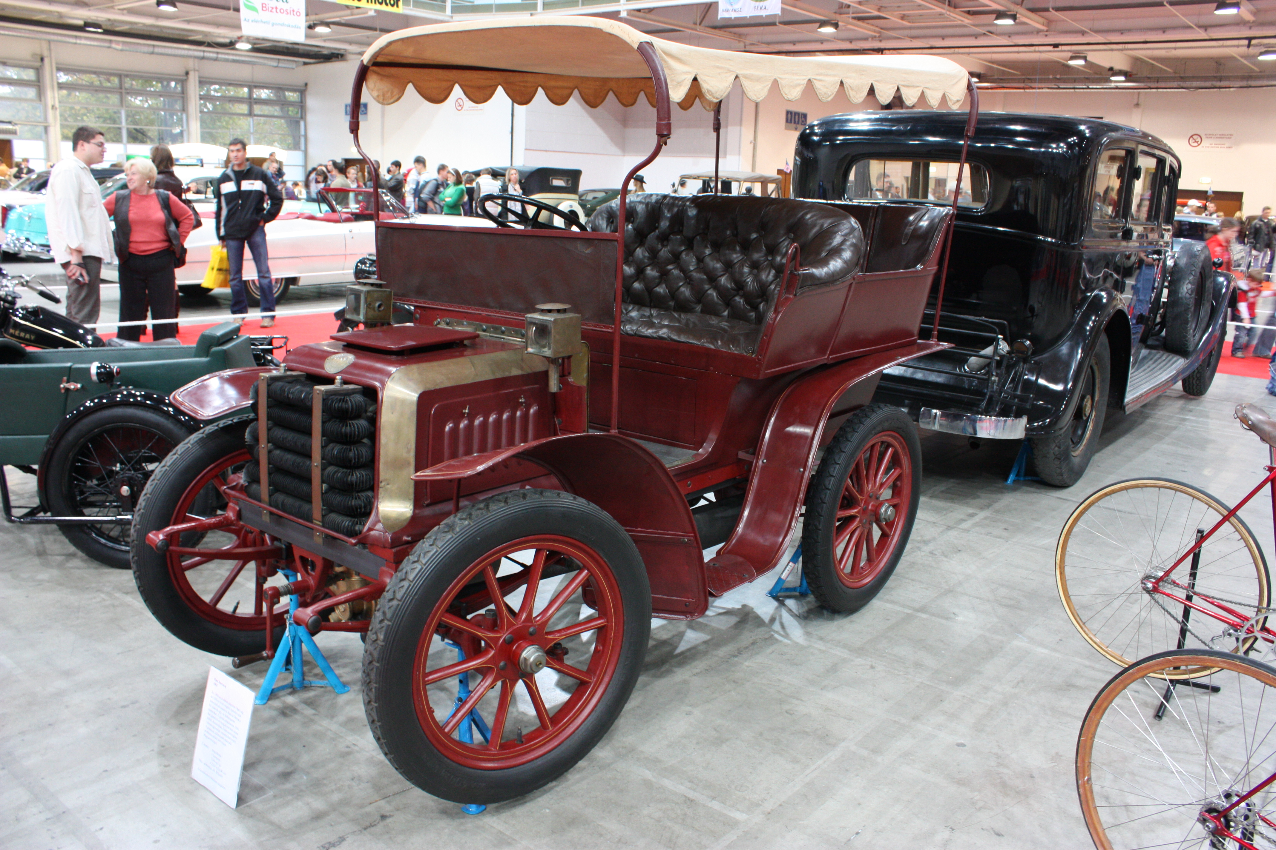 Oldtimer Show 2008